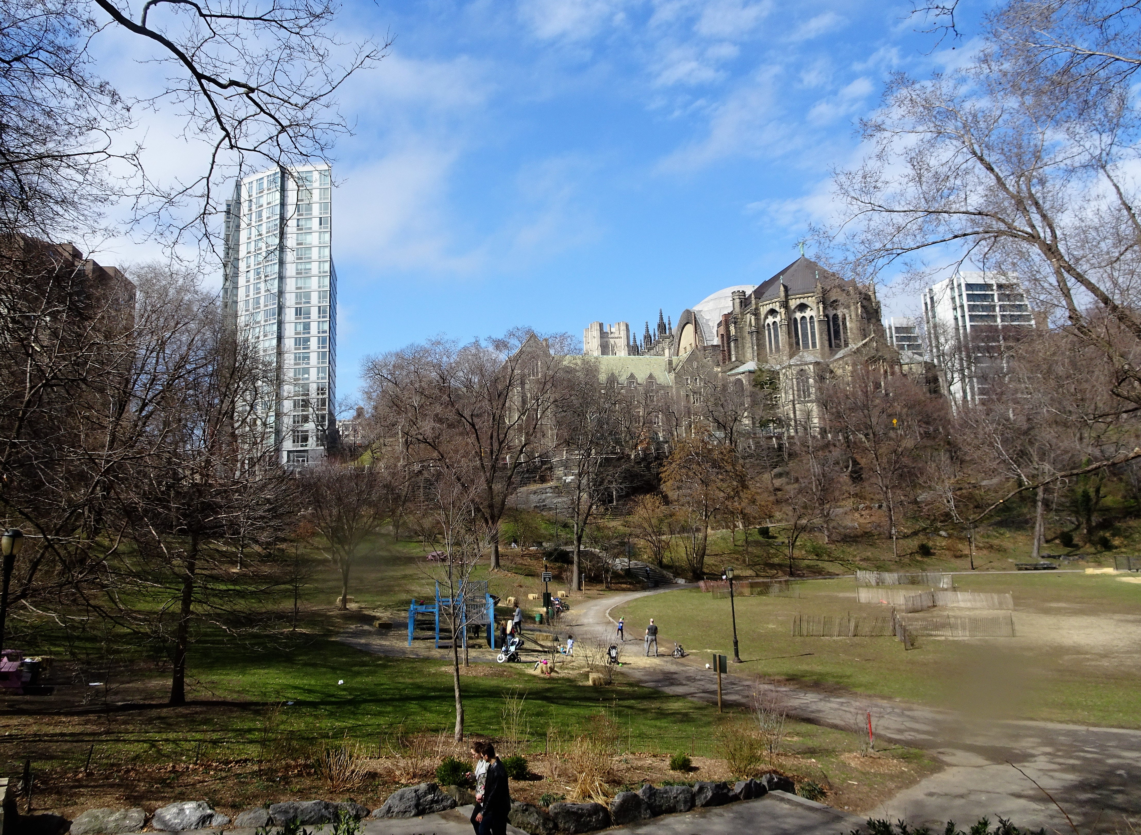 Looking northwest across Morningside Park at distant cathedral.